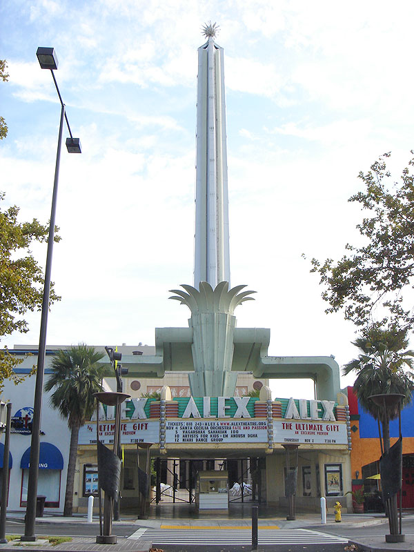 Another Art Deco landmark, 1925 and 1939 by Charles Selkirk and Arthur Lindley.